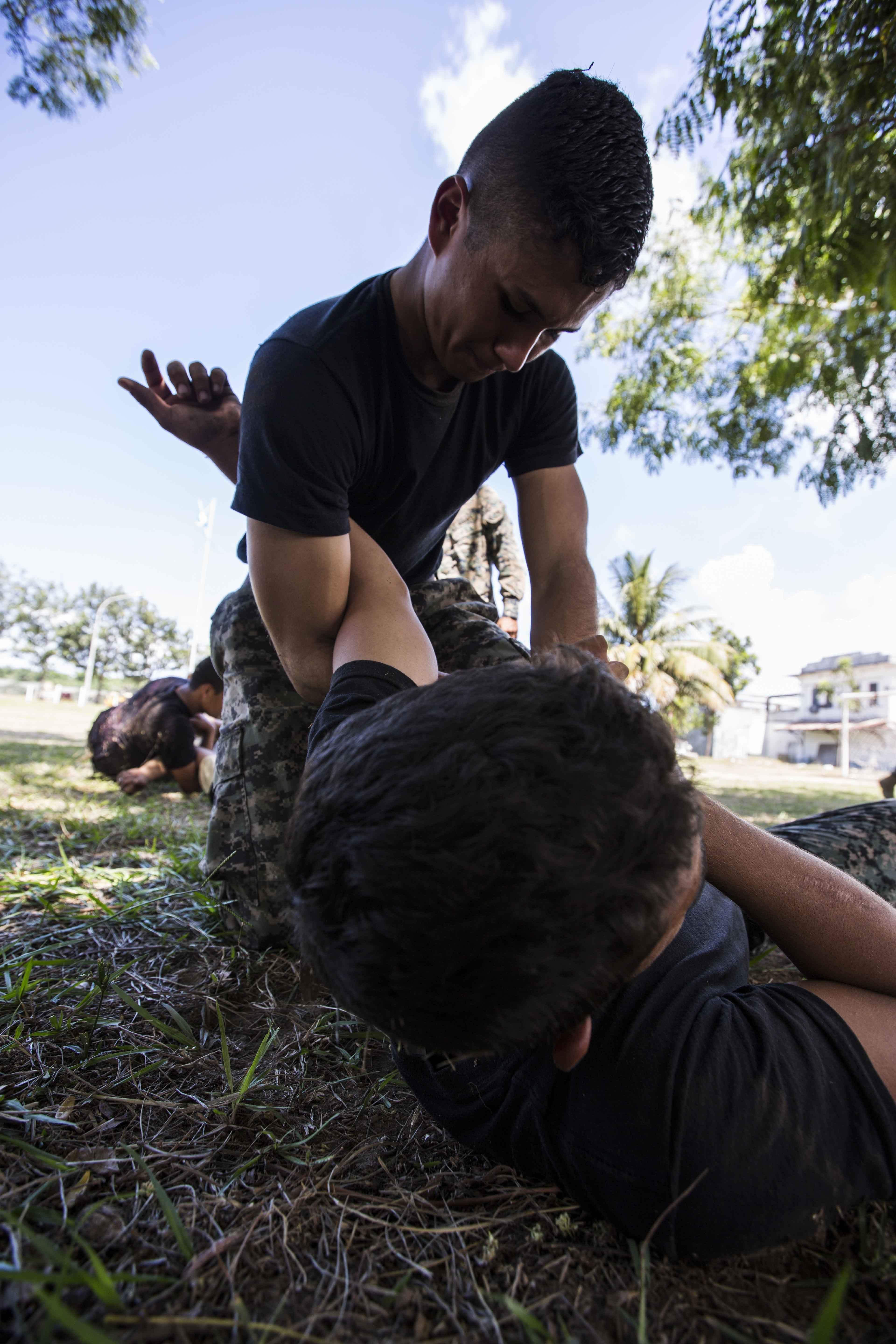 Sargento Segundo José Nuñez Cruz, a platoon sergeant with the Batallon de Infantería de Marina (BIM) performs a proper arm bar during a Marine Corps Martial Arts (MCMAP) practical application held by U.S. Marines with the Landing Attack and Subsequent Operations (LASO) team at the BIM base, Puerto Castilla, Honduras, Sept. 23, 2014. The LASO team is part of Southern Partnership Station 14, a combined joint exercise focused on subject matter expert exchanges with partner nations and security forces as well as military to military engagements and community relations projects in Central America. (U.S. Marine Corps photo by Cpl. Nicholas T. Nohalty, 2D MARDIV Combat Camera/Released) Unit: 2D Marine Division Combat Camera